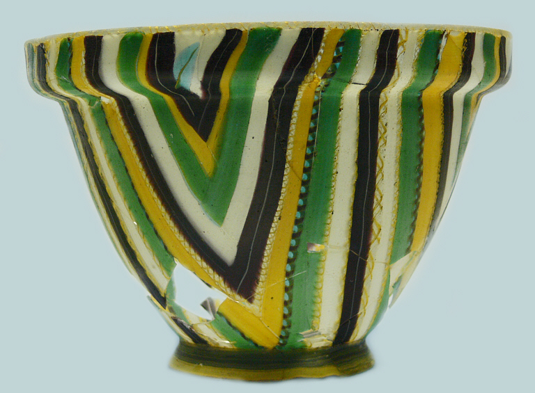 Millefiori vessel, glass, Necropolis of Kavran, Istria, 1st century AD. Archeological Museum, Pula, Croatia.